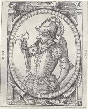 Skirgaila was a regent of the Grand Duchy of Lithuania for his brother Jogaila from 1386 to 1392. He was son of Algirdas, Grand Duke of Lithuania, and his second wife Uliana of Tver.